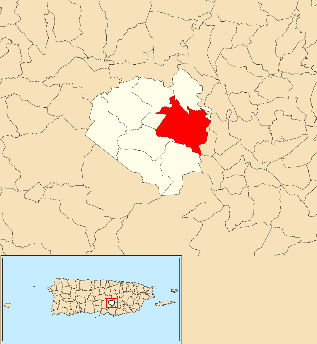 Robles, Aibonito, Puerto Rico locator map